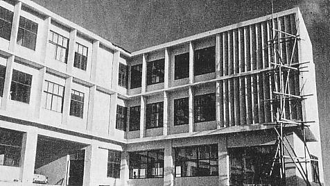 Public Prosecutors Office of GRI(Government of the Ryukyu Islands) circa 1955